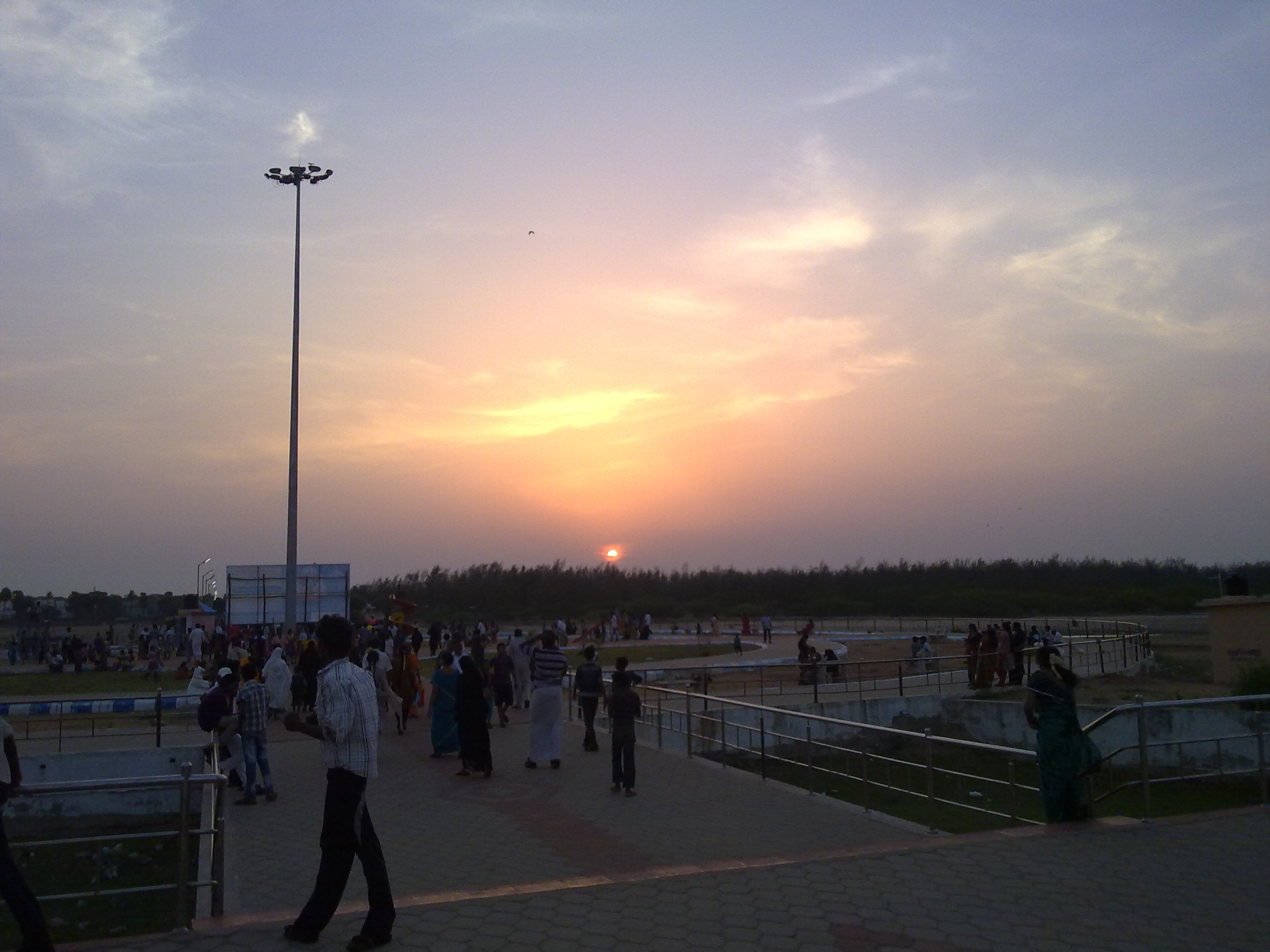 sunset,nagai beach